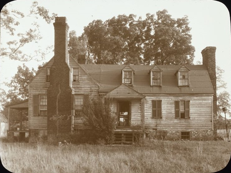 Title [Apperson Farm House, New Kent County, Virginia. Entrance facade] Contributor Names Johnston, Frances Benjamin, 1864-1952, photographer Created / Published [between ca. 1930 and 1939] Subject Headings - Houses--Virginia--New Kent County--1930-1940 - Chimneys--Virginia--New Kent County--1930-1940 - Porches--Virginia--New Kent County--1930-1940 Format Headings Lantern slides--1930-1940. Notes - On slide (handwritten): "Apperson Farm. New Kent." - Slide for lecturing on "Tales Old Houses Tell." - Title and date based on same image in the Carnegie Survey of the Architecture of the South, LC-J7-VA-2179, with additional information from Sam Watters, 2011. - Forms part of: Garden and historic house lecture series in the Frances Benjamin Johnston Collection (Library of Congress). - Formerly in Box 34. Medium 1 photograph : glass lantern slide, sepia-toned ; 3.25 x 4 in. Call Number/Physical Location LC-J717-X106- 18 [P&P] Repository Library of Congress Prints and Photographs Division Washington, D.C. 20540 USA Digital Id ppmsca 16588 //hdl.loc.gov/loc.pnp/ppmsca.16588 Library of Congress Control Number 2008675888 Reproduction Number LC-DIG-ppmsca-16588 (digital file from original item) Rights Advisory No known restrictions on publication. Online Format image Description 1 photograph : glass lantern slide, sepia-toned ; 3.25 x 4 in. LCCN Permalink